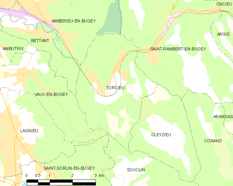 Map of French commune: Torcieu Map commune FR insee code 01421.png